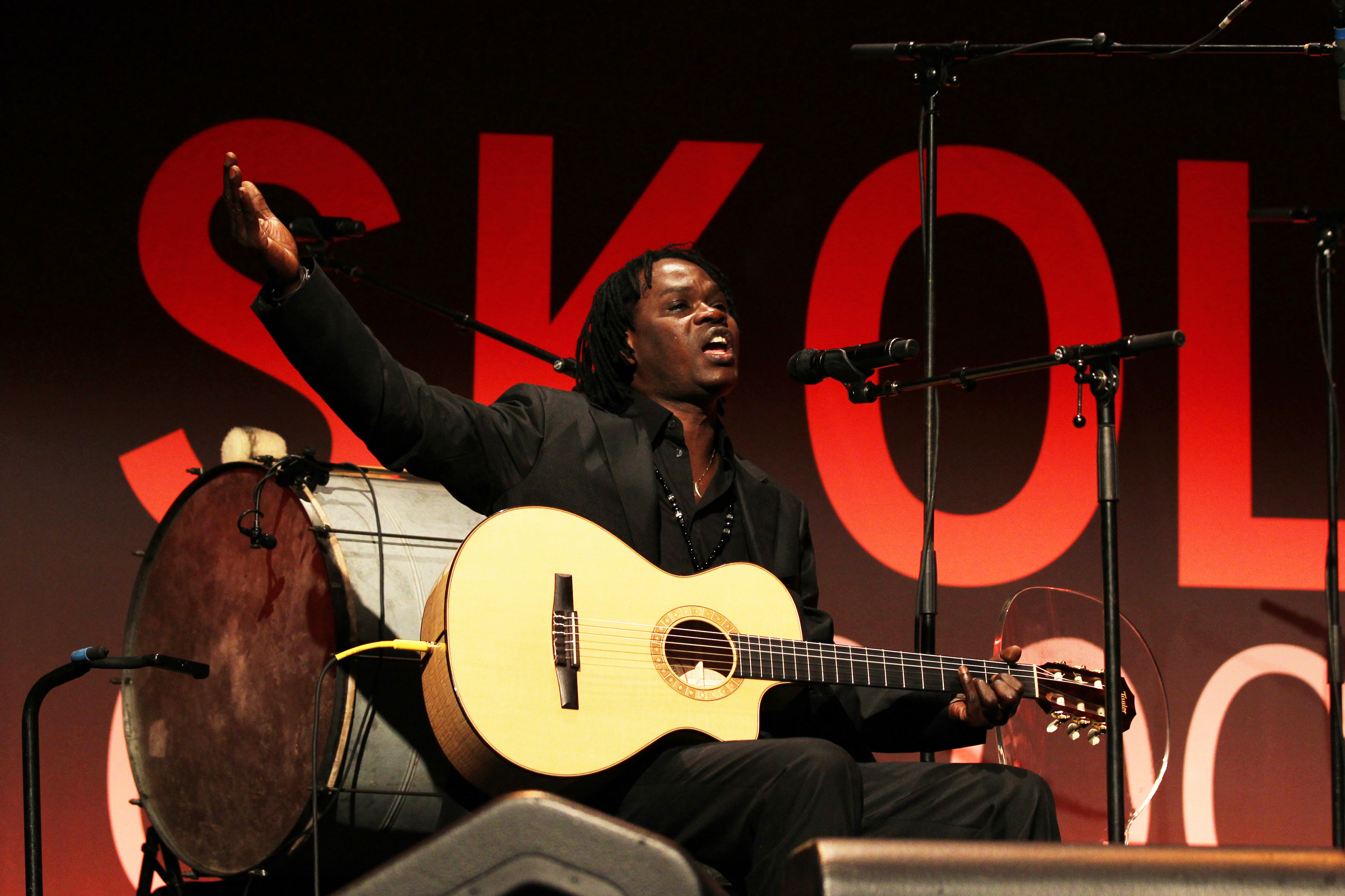 Baaba Maal performing at the Skoll Awards. The Skoll Awards for Social Entrepreneurship honour the 2011 Awardees and celebrate all those who are working to create a peaceful, prosperous and sustainable world.